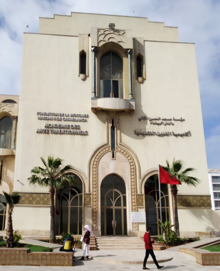 front door of the academy of traditional arts